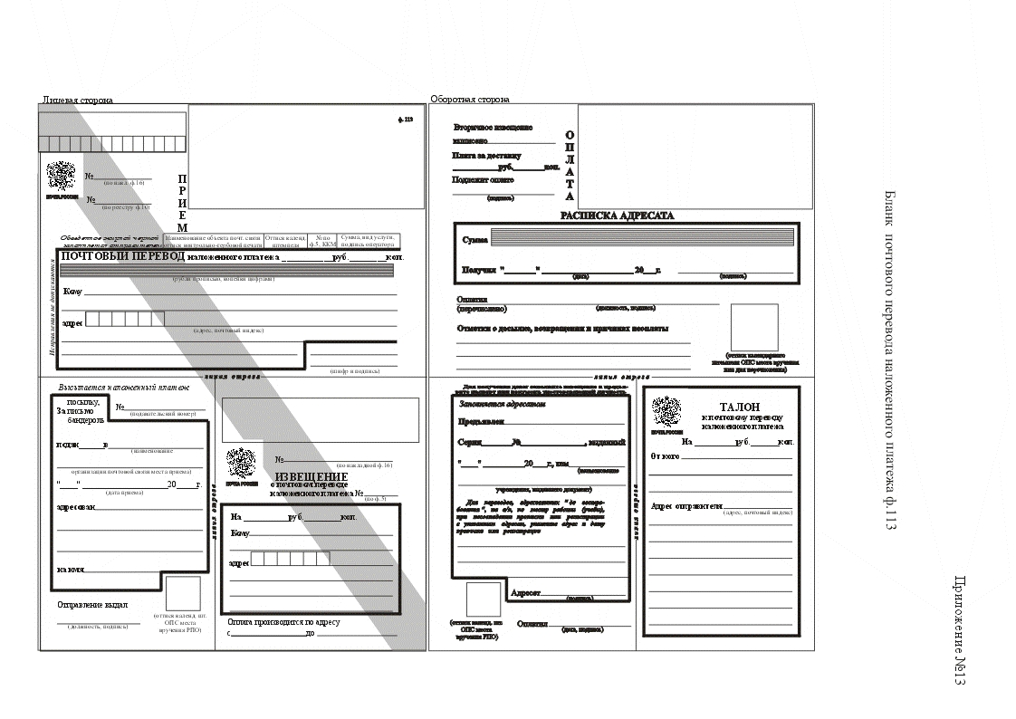 Form 113. Form of postal order cash on delivery. Russian Post